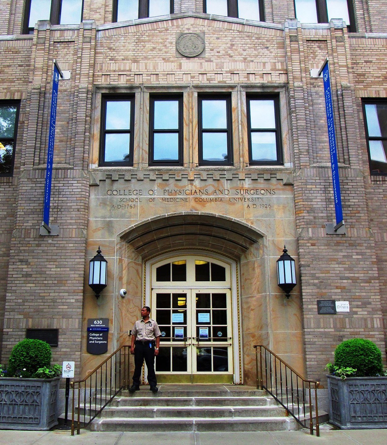 Columbia University College of Physicians and Surgeons was founded in 1767 and is the oldest medical school in the United States. It is located in the Columbia University Medical Center in the Washington Heights neighborhood of Manhattan, New York City, in a 1928 building designed by James Gamble Rogers, and is affiliated with the New York-Presbyterian Hospital.